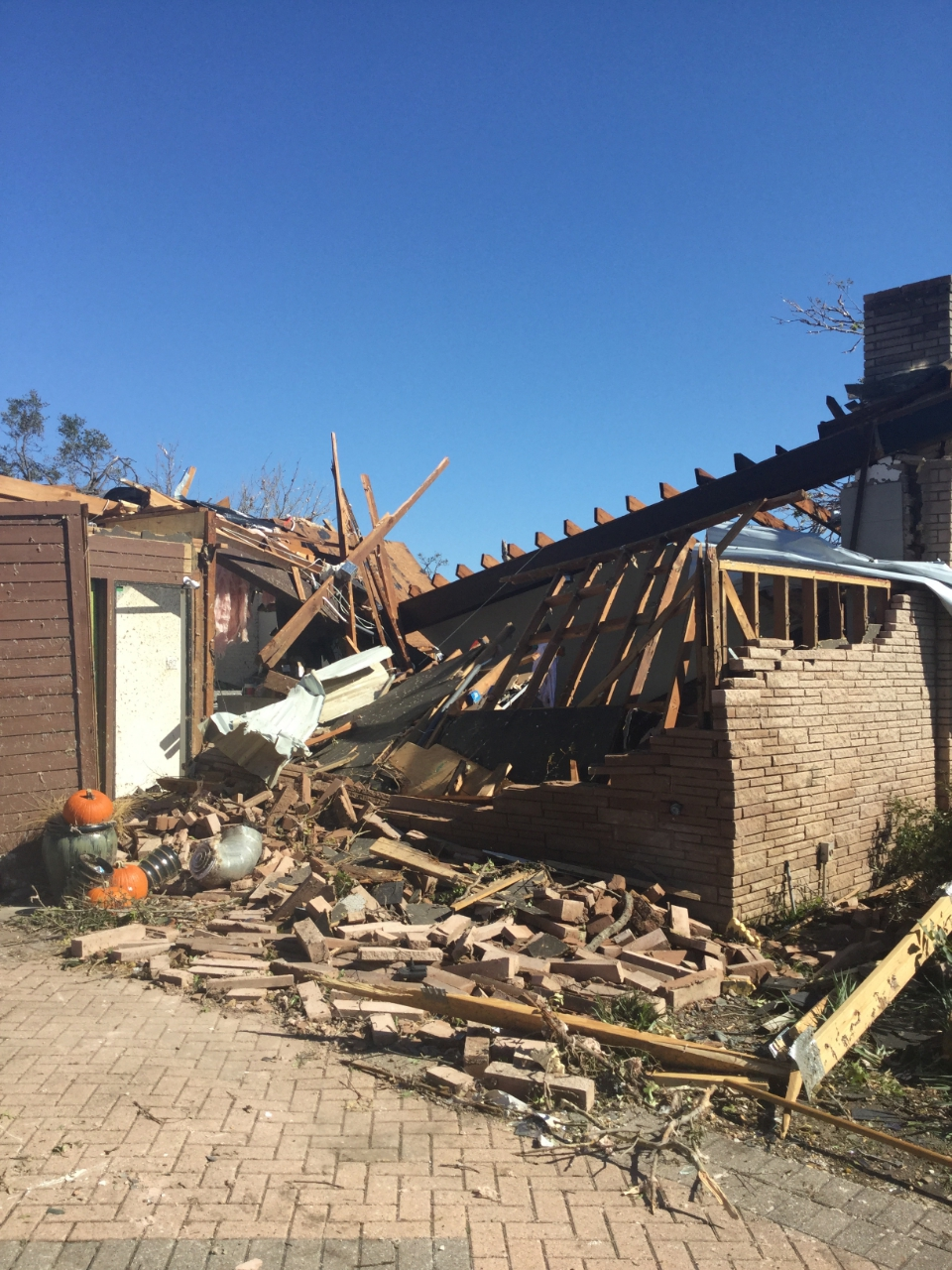 Remains of a house in Richarson, Texas that was destroyed by the 2019 Dallas tornado. Damage here was rated low-end EF3.